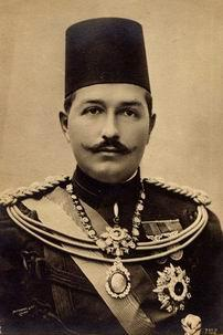 Photograph of Abbas Helmi II (1874-1944), Khedive of Egypt, in military uniform.